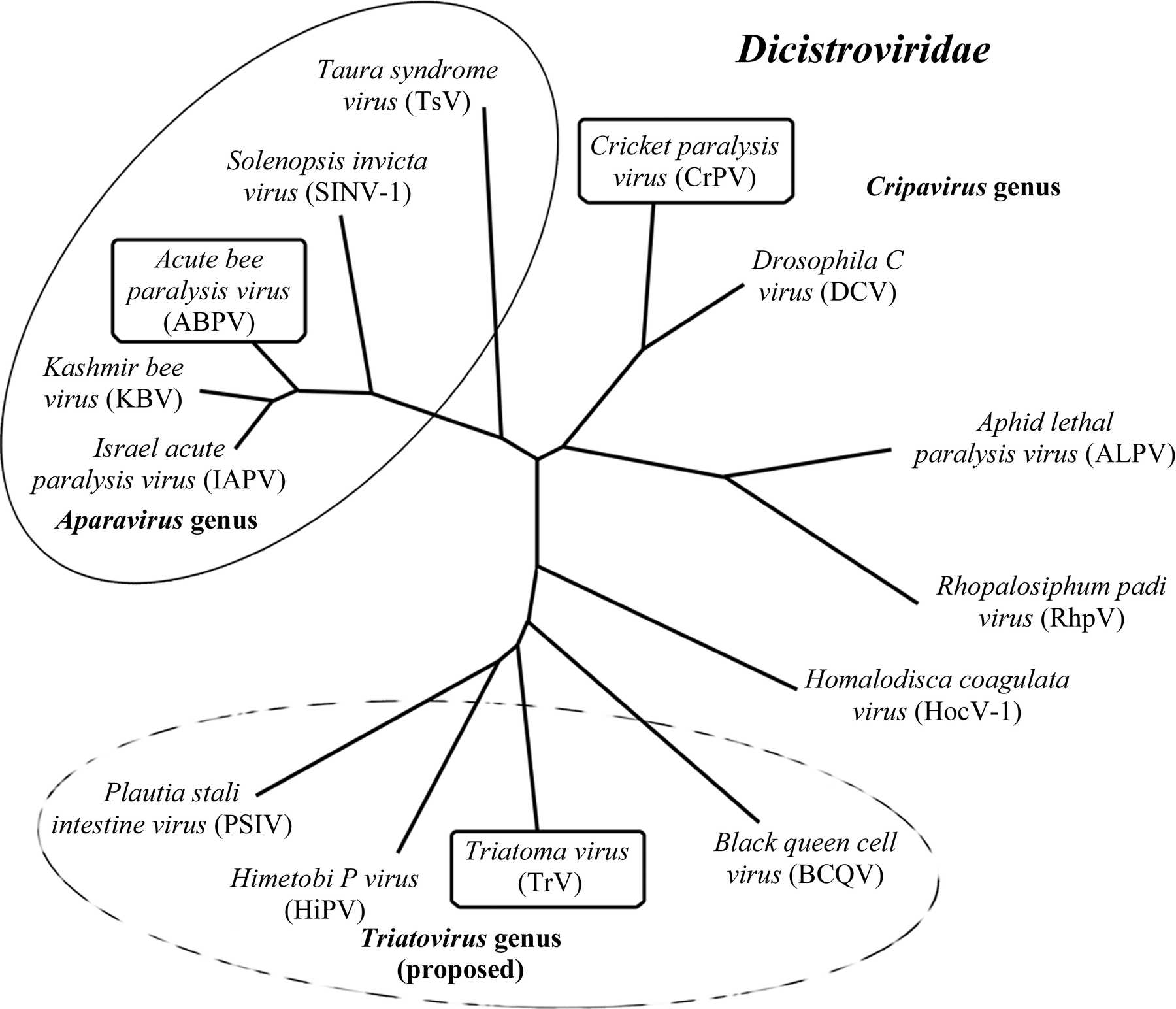 Phylogenetic classification of the available Dicistroviridae genome sequences constructed using the MEGA5 software (Tamura et al., 2011). The type species of each genus is boxed. Two genera have been accepted so far: Cripavirus and Aparavirus (continuous ellipse). The proposed Triatovirus genus (Agirre et al., 2011) would initially cover PSIV, HiPV, BQCV and TrV (dashed ellipse), with TrV as the type species.